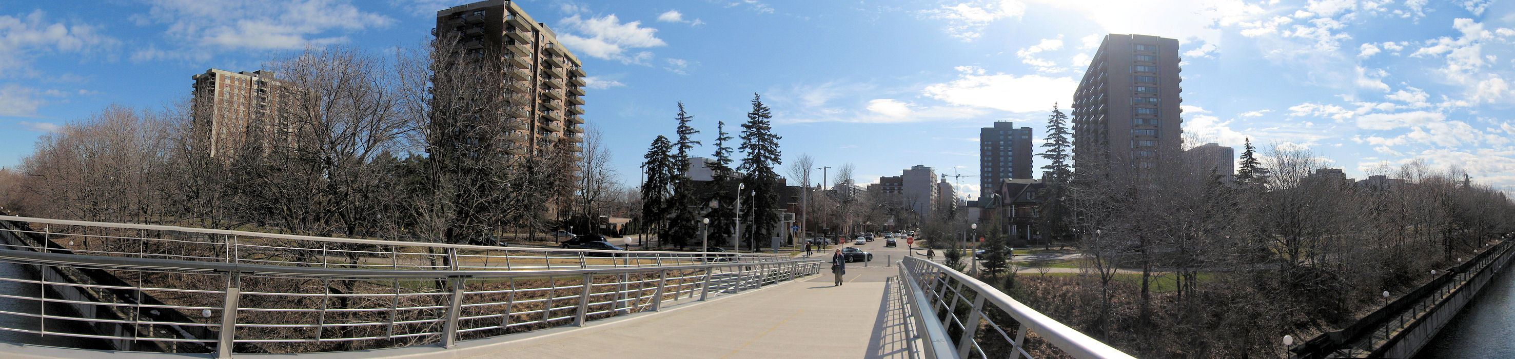 The Rideau Canal as viewed from the Corktown Footbridge.